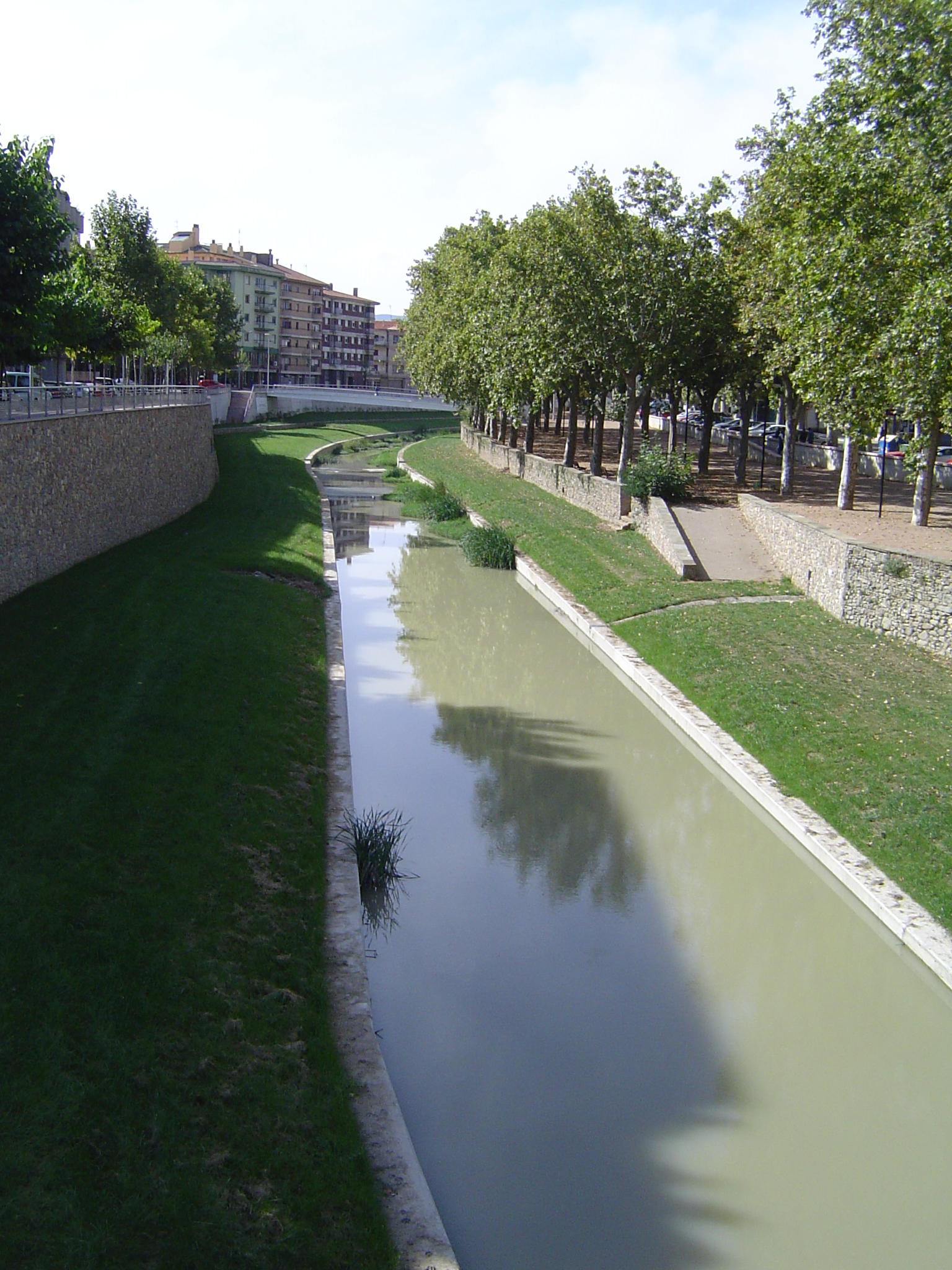 Mèder river crossing Vic